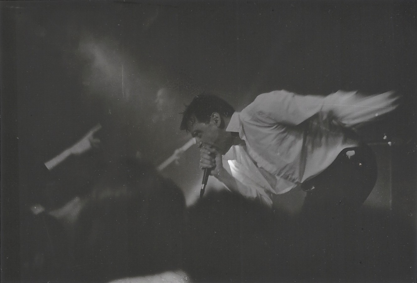 God Bullies, the Venue, London 1990 Early 90s American bands across England. Neate photos facebook page. More neate photos.